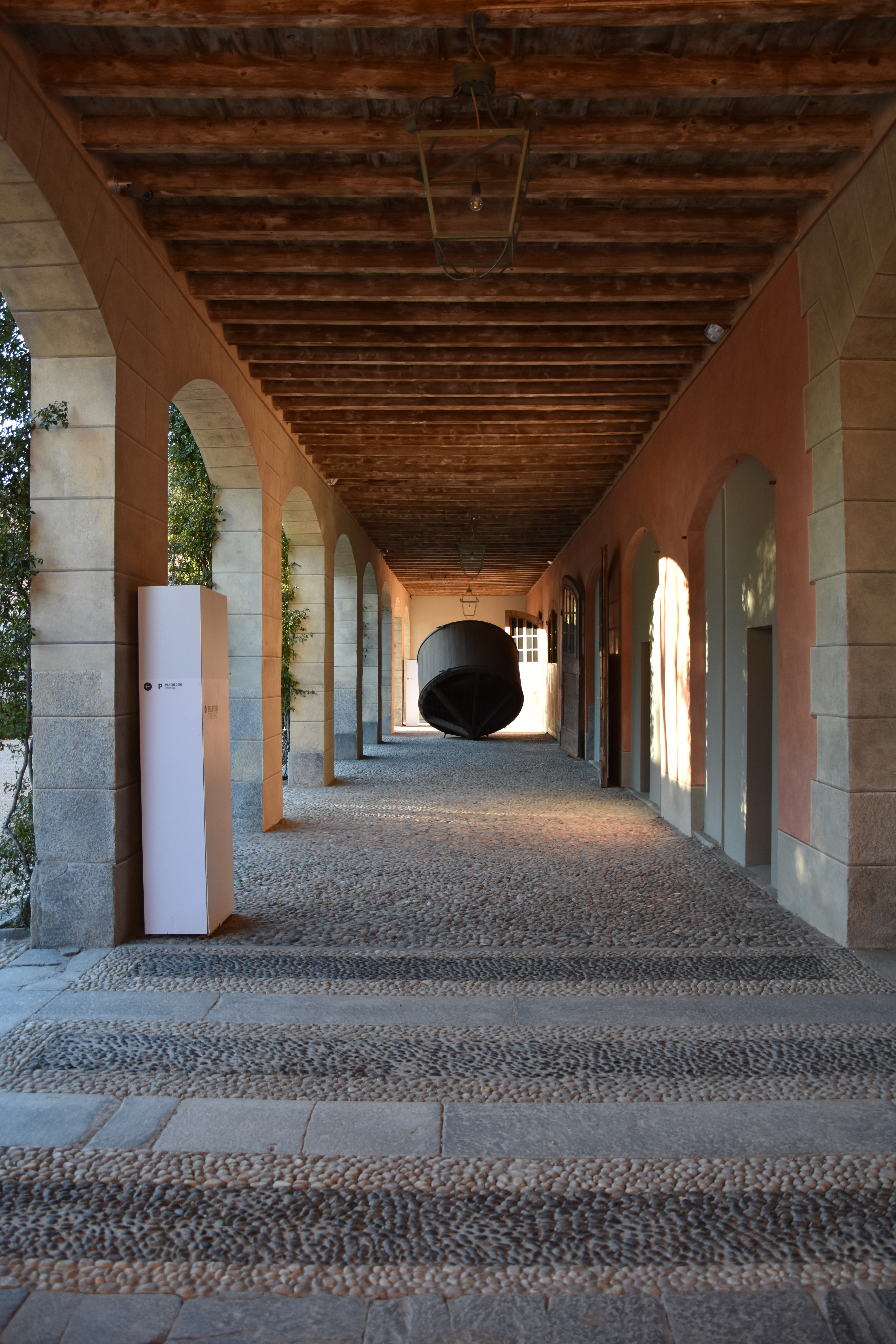 Villa Panza in Varese, Italy.